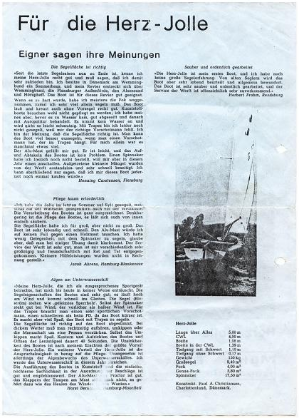 Herzjolle, Werbeprospekt der Firma Mühle Boote und Yachten, Hamburg, Deutschland